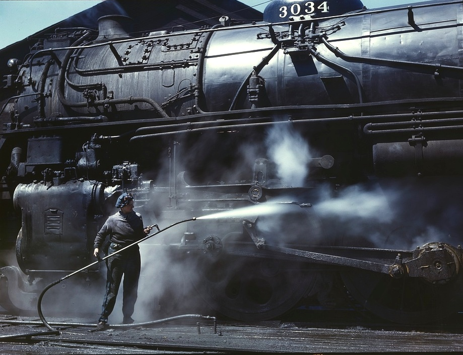 Mrs. Viola Sievers, one of the wipers at the roundhouse giving a giant "H" class locomotive a bath of live steam. Clinton, Iowa, April 1943